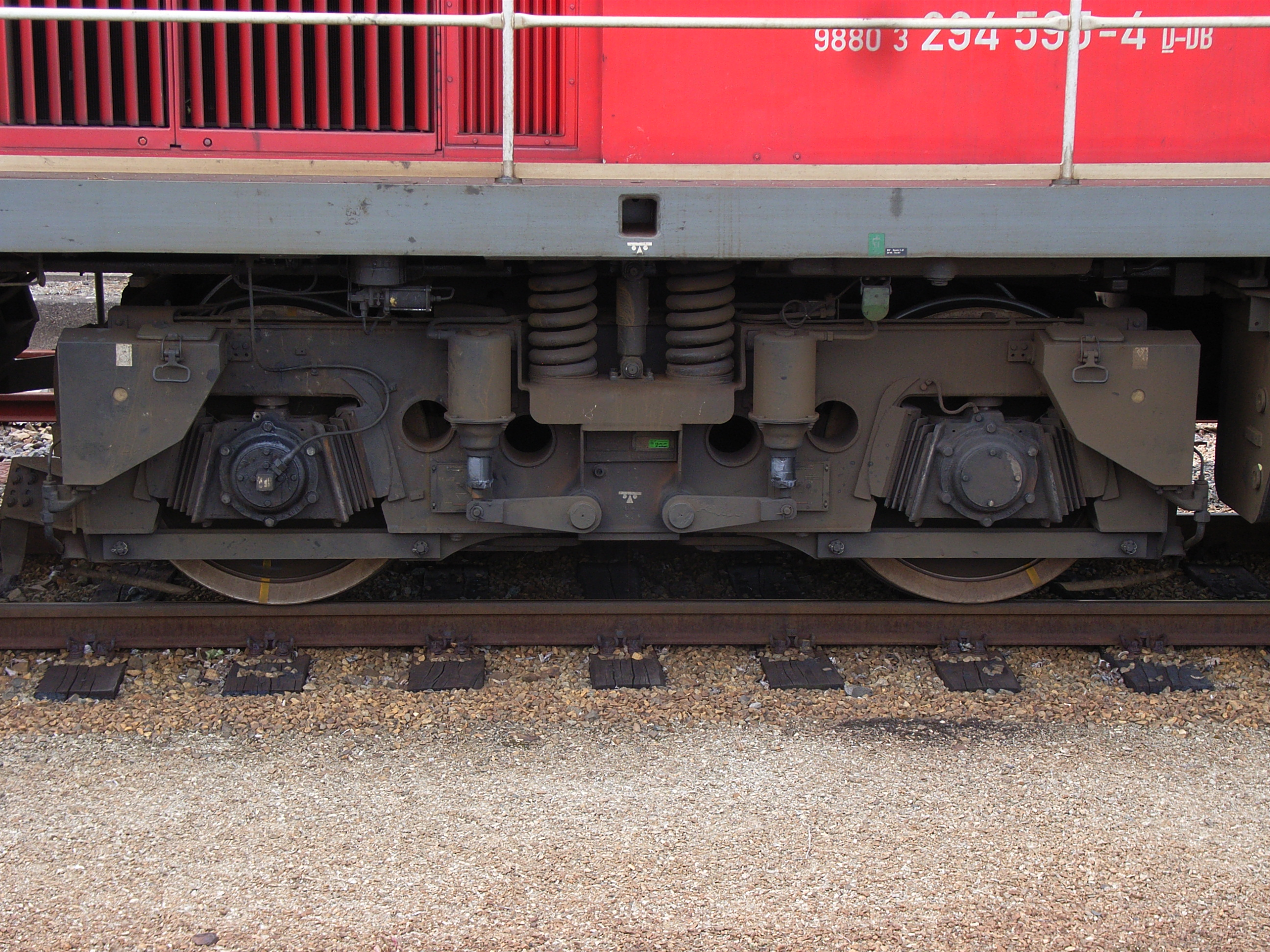 bogie of a German class 294